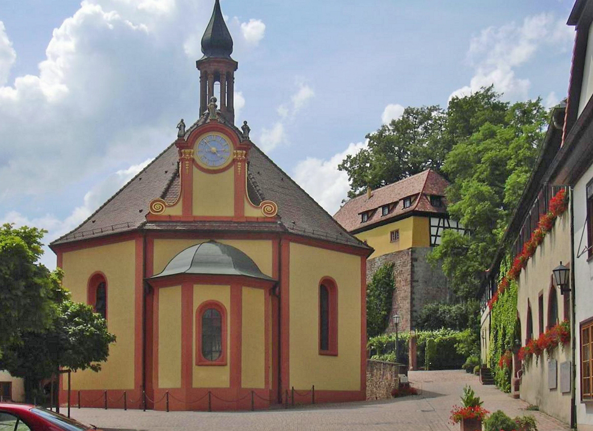 Church and castle in Mahlberg, Germany